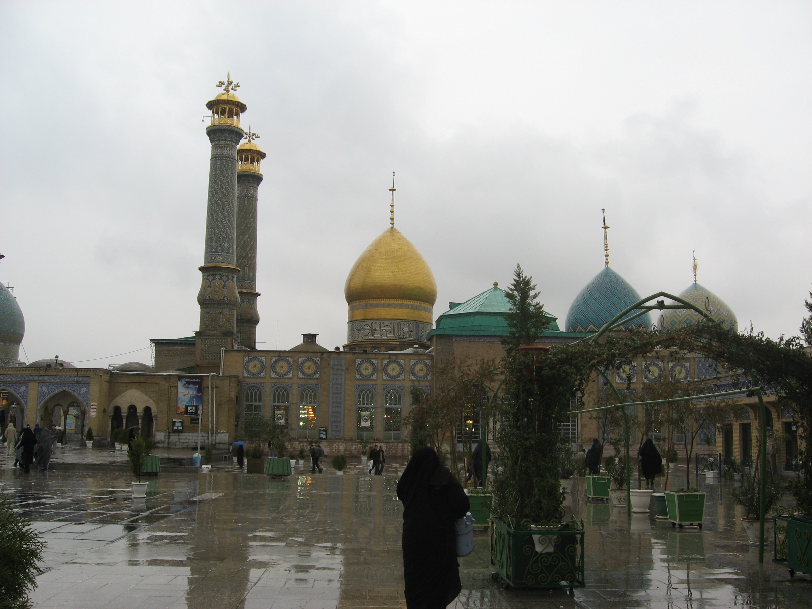 Shah Abdol Azim shrine